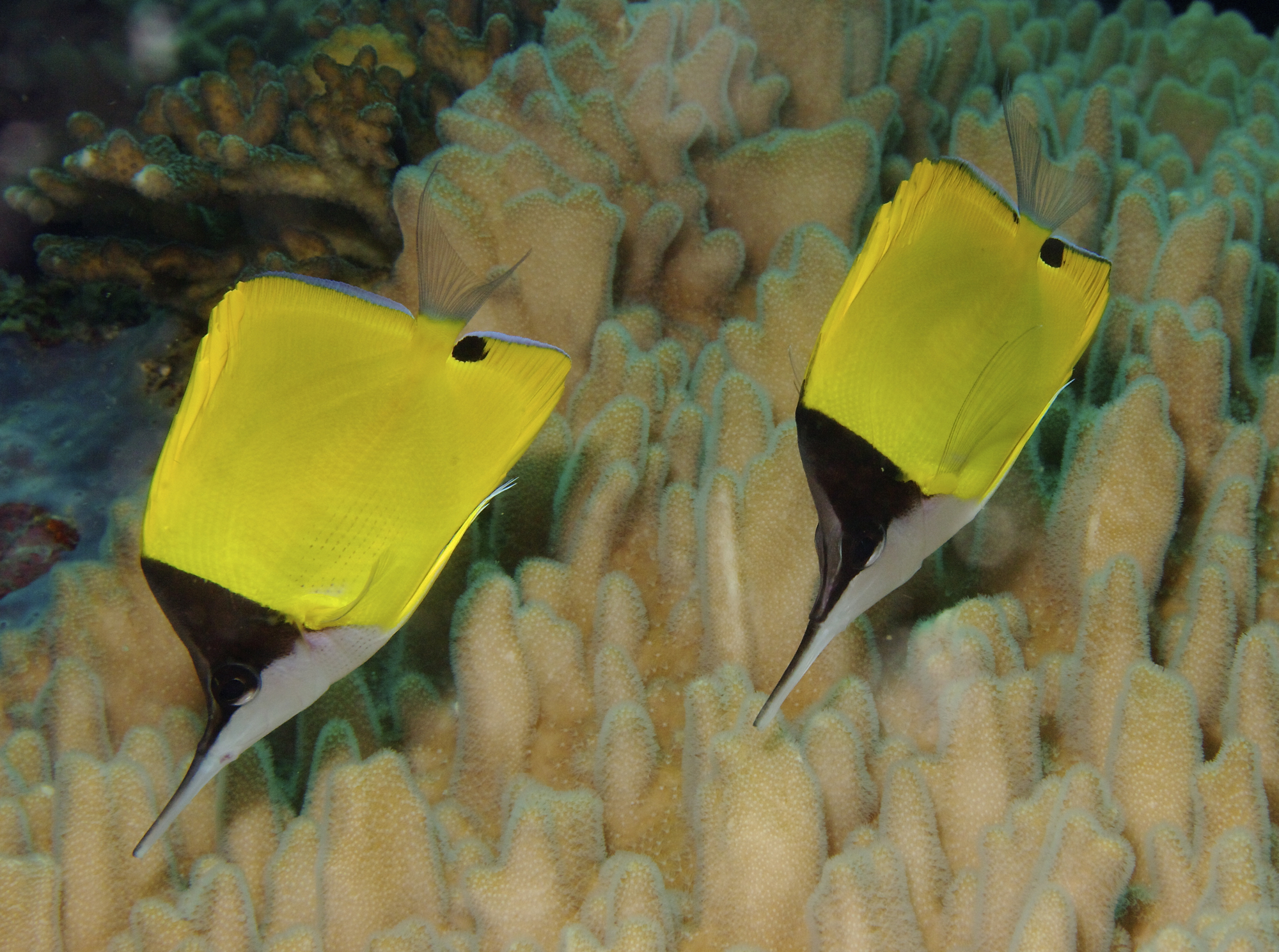 Forcipiger flavissimus Yellow Longnose Butterflyfish